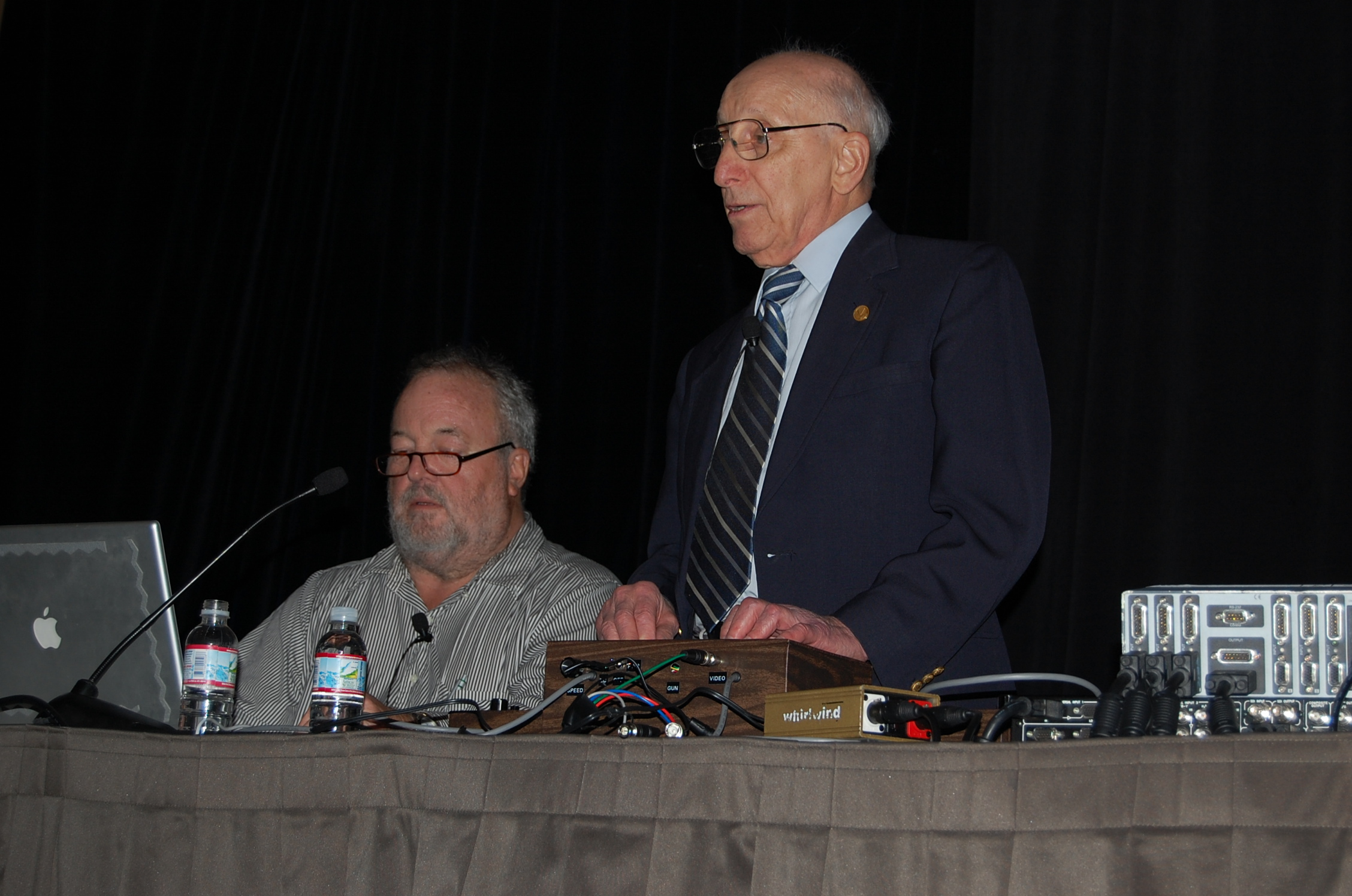 Allan Alcorn and Ralph Baer at the Game Developers Conference in 2008.